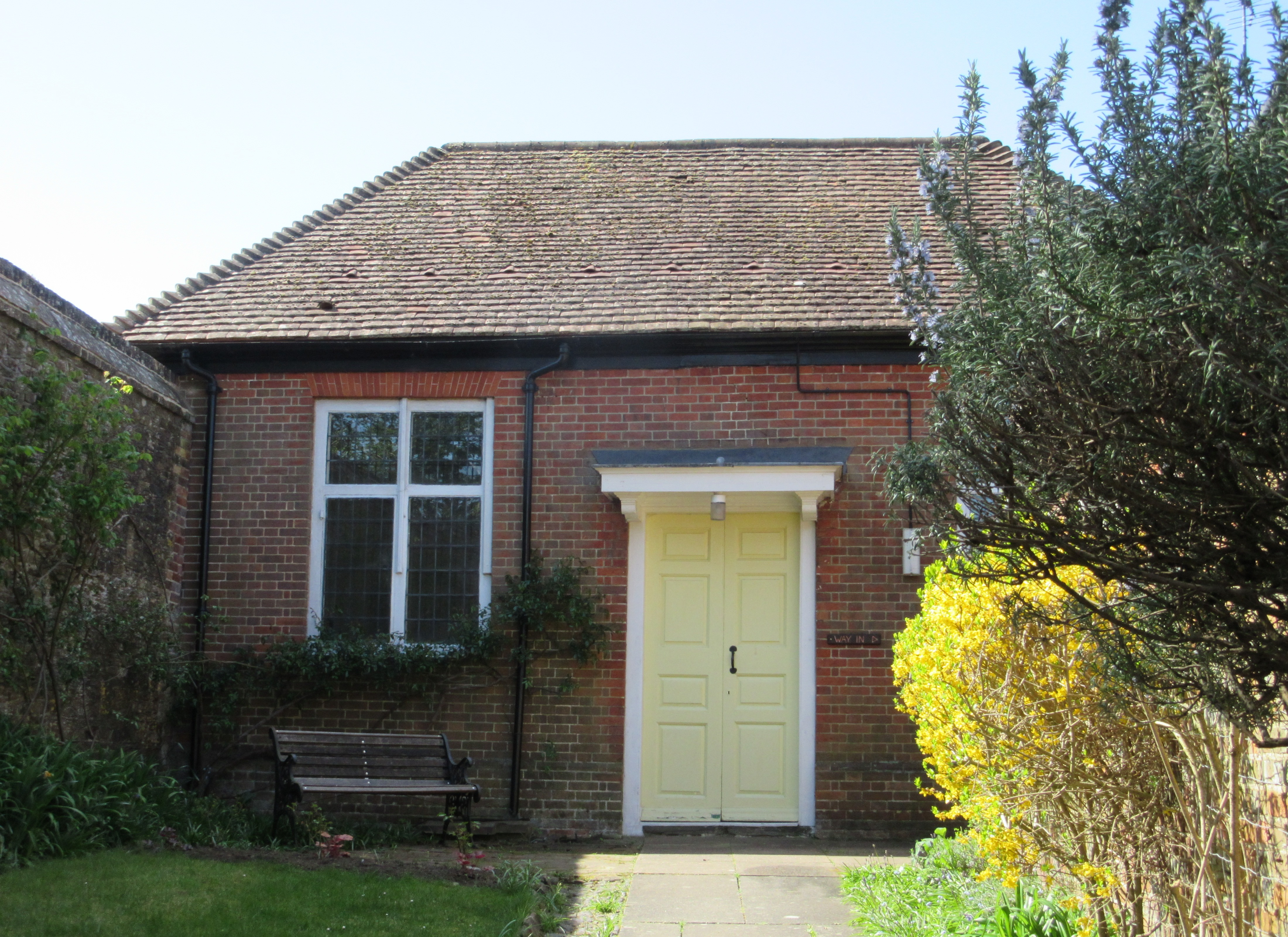 Friends Meeting House, Mill Lane, Godalming, Borough of Waverley, Surrey, England.